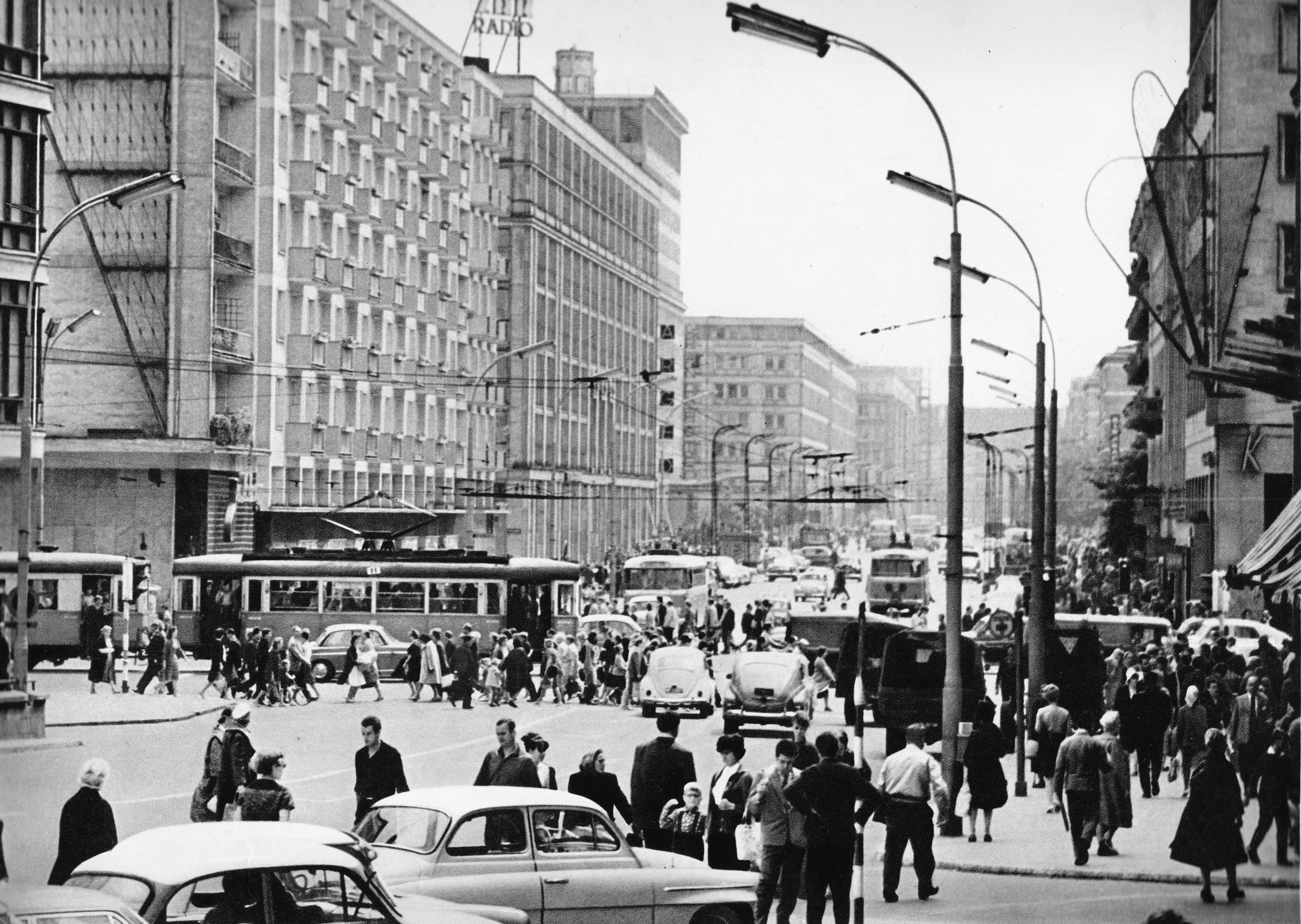 Intersection of Krucza Street and Jerozolimskie Avenues in Warsaw